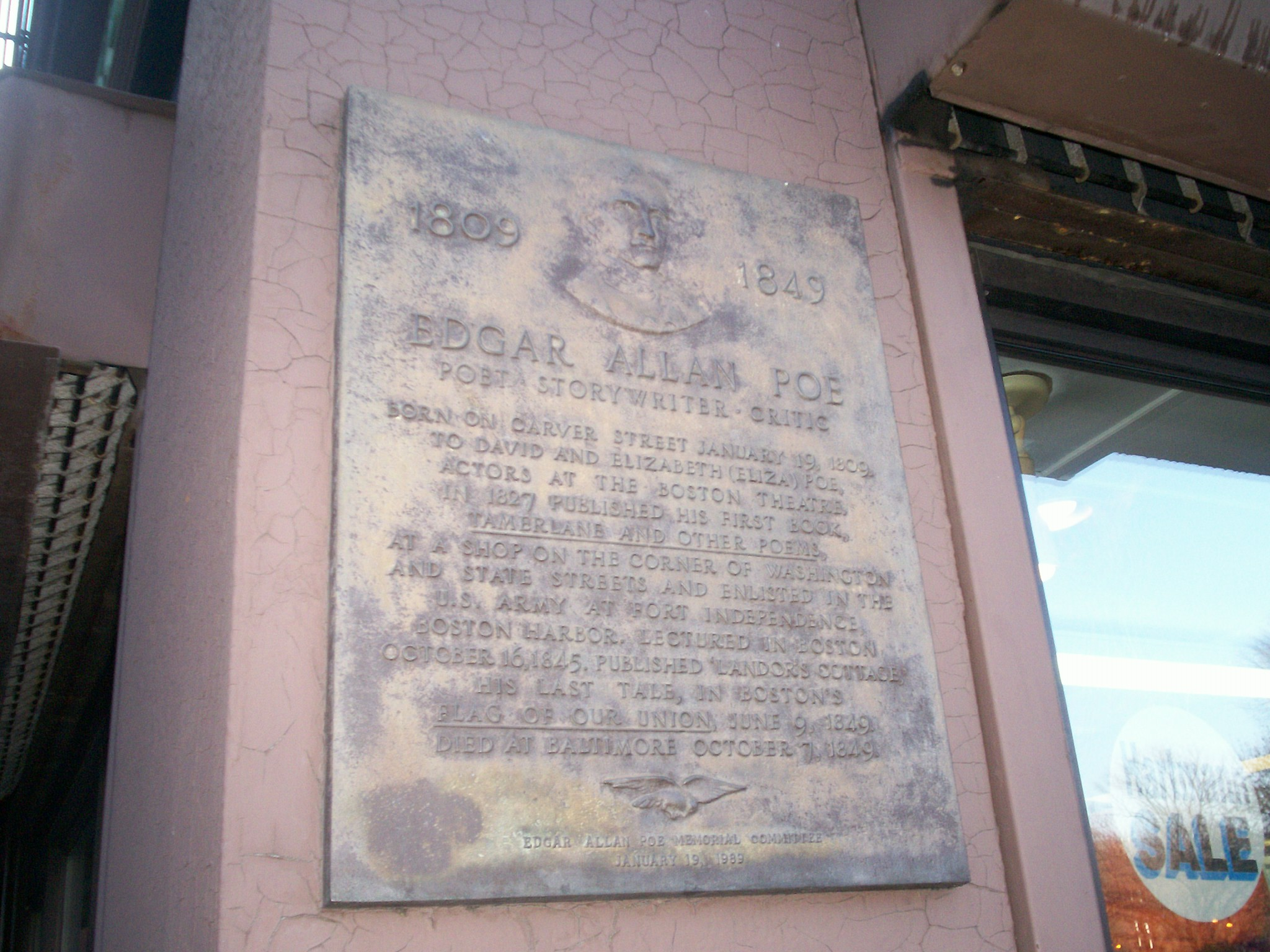 Plaque commemorating the birthplace of Edgar Allan Poe, located at Carver St. in Boston, MA across from Boston Common. The exact location of Poe's birth is uncertain. This plaque is on the side of what is currently a luggage store.